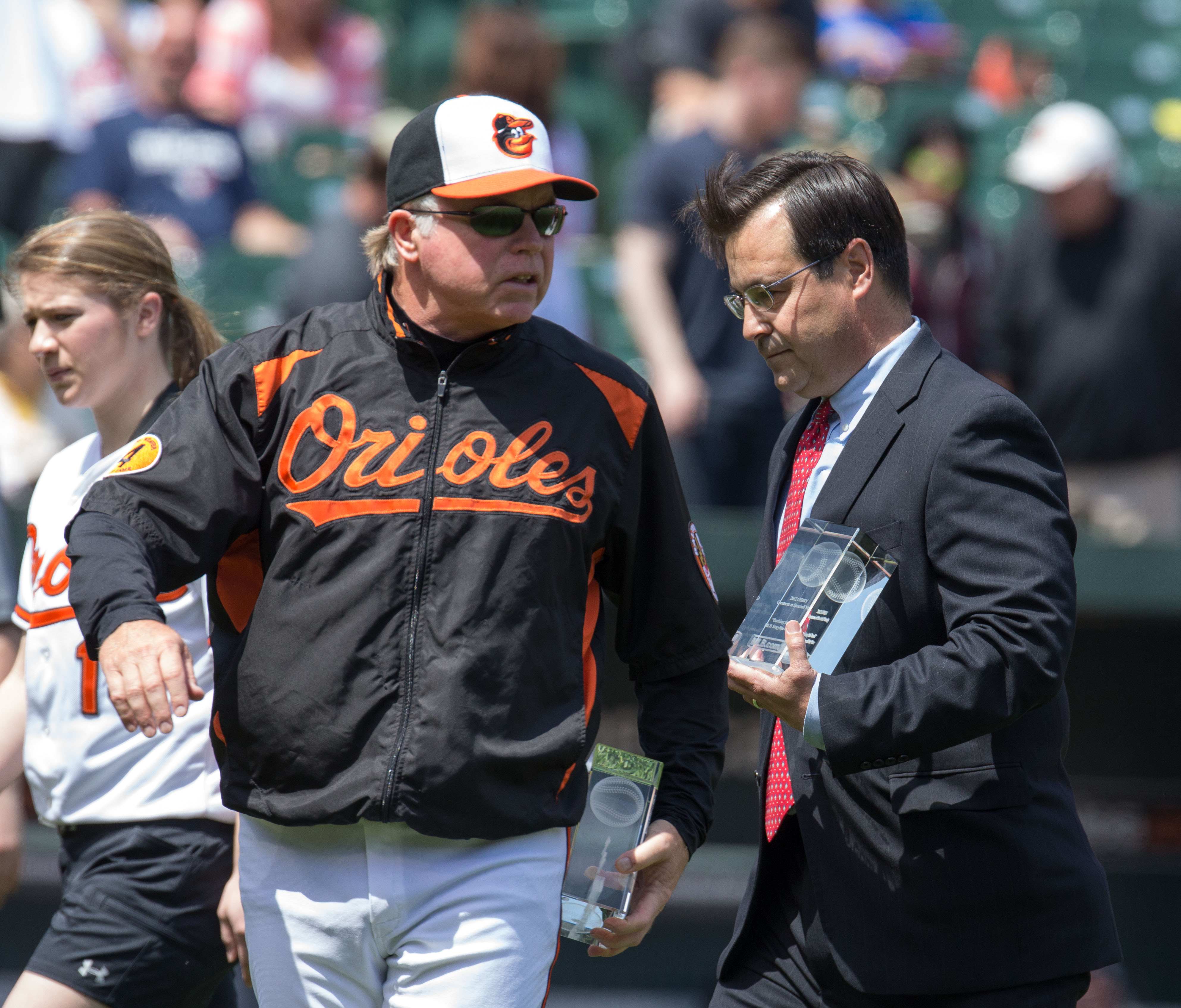 Toronto Blue Jays at Baltimore Orioles April 24, 2013